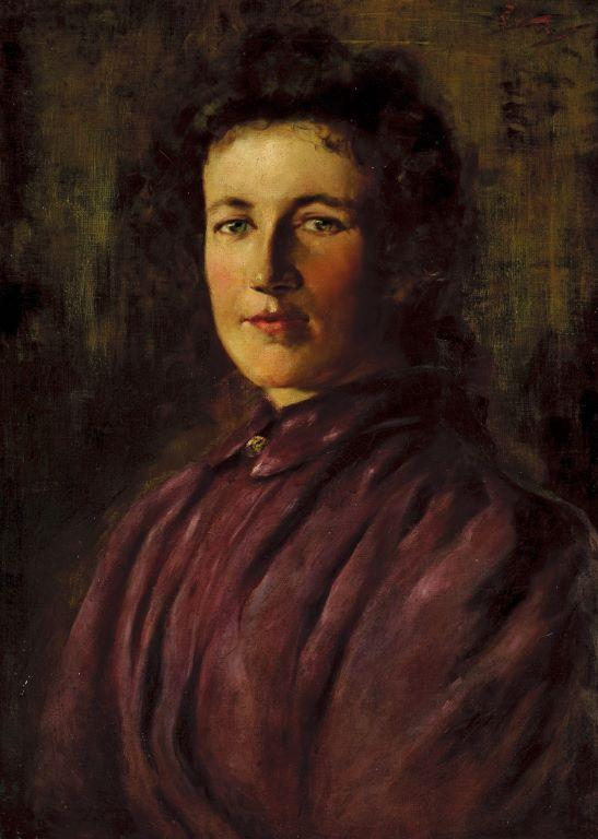 Portrait of Jane Eyre by Girolamo Pieri Nerli